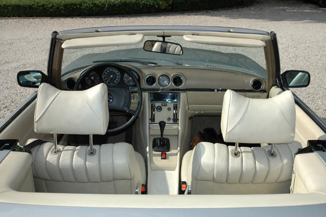 Mercedes Benz 450SL 1973 Interior